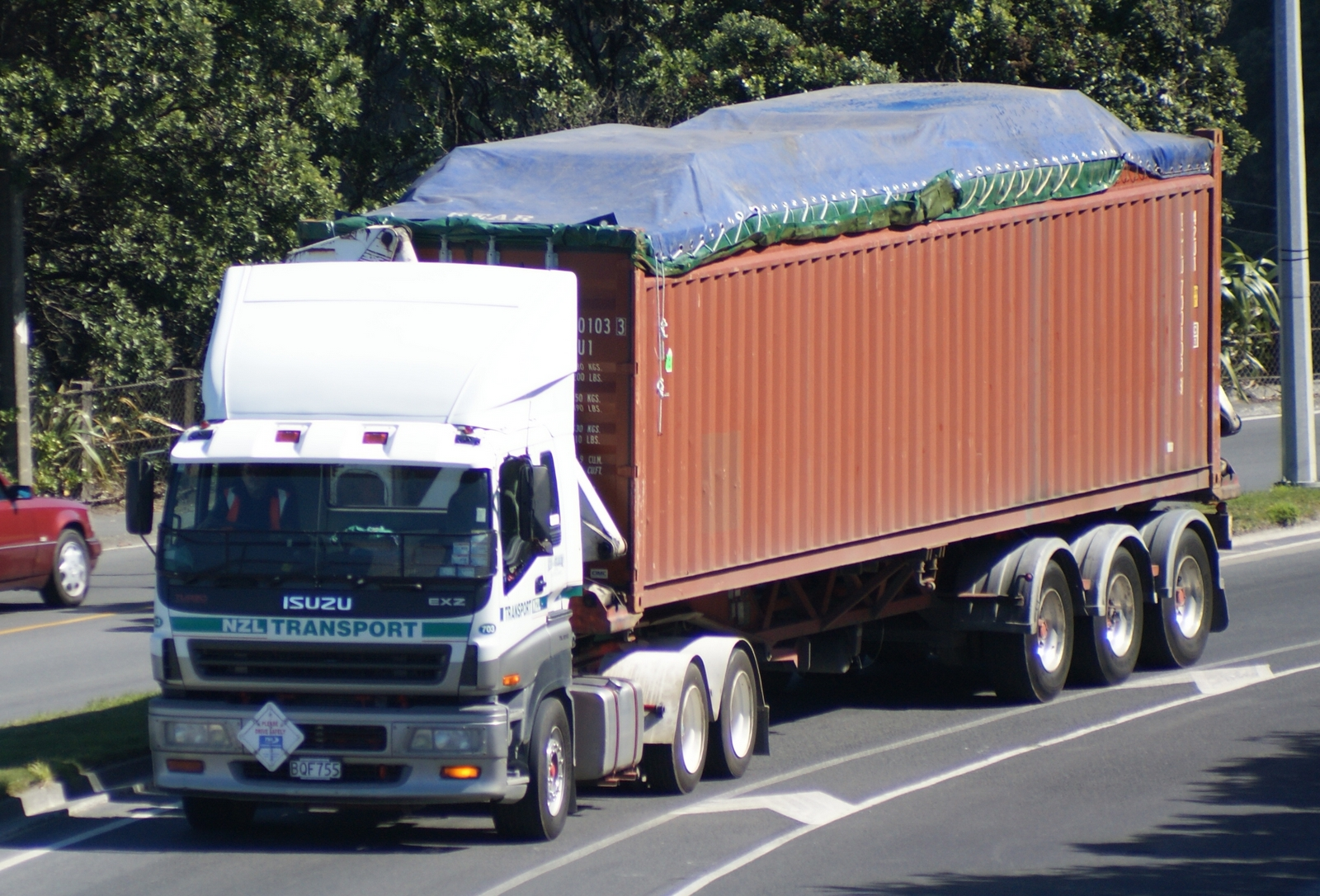 New Zealand Trucks